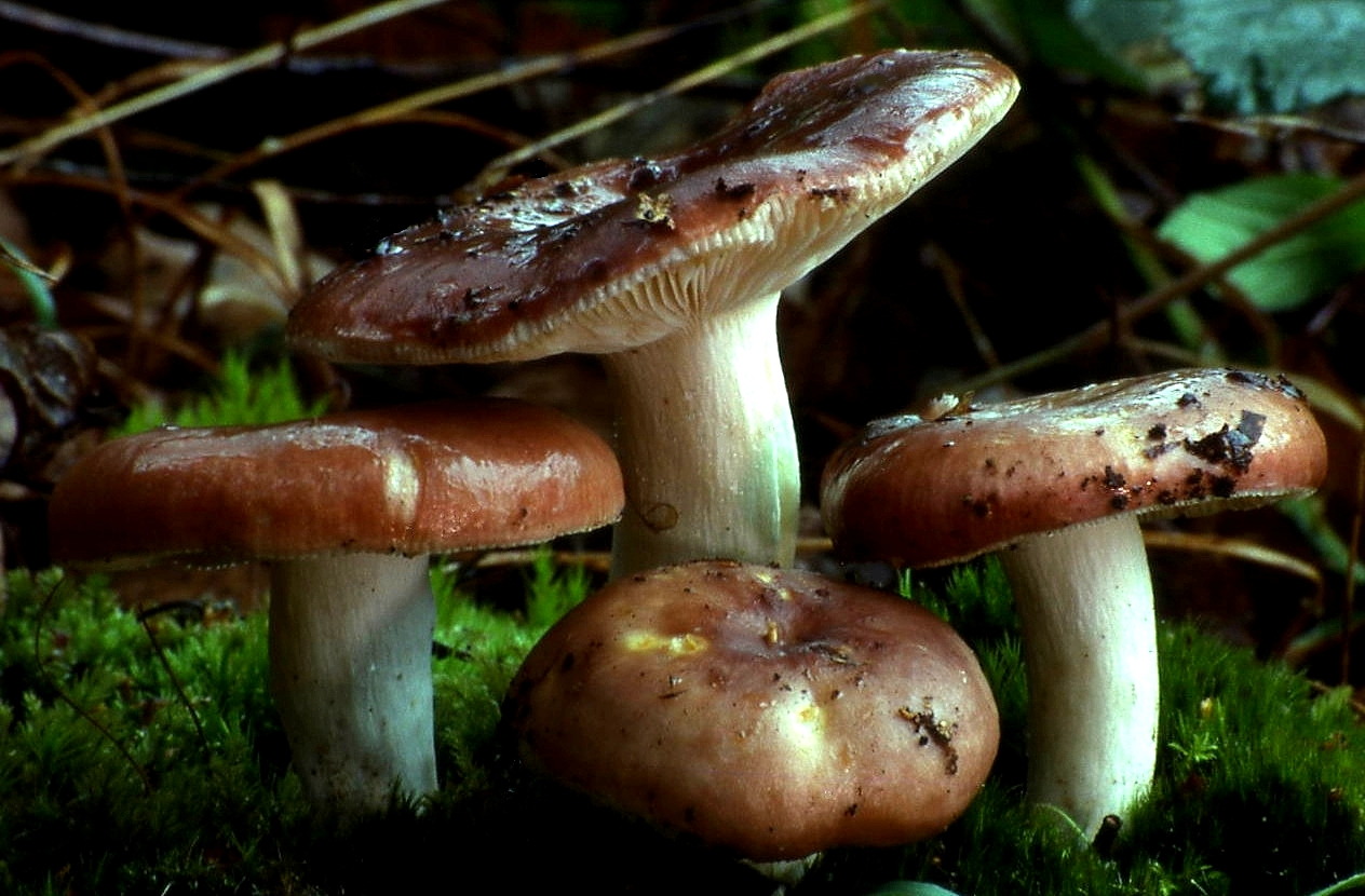 This image is the work of photographer Zonda Grattus, aka User:luridiformis. He is the sole owner and copyright holder of this photograph, and holds the original 35mm slide. He agrees to publish it under the Own Work, Creative Commons Attribution 3.0 License.